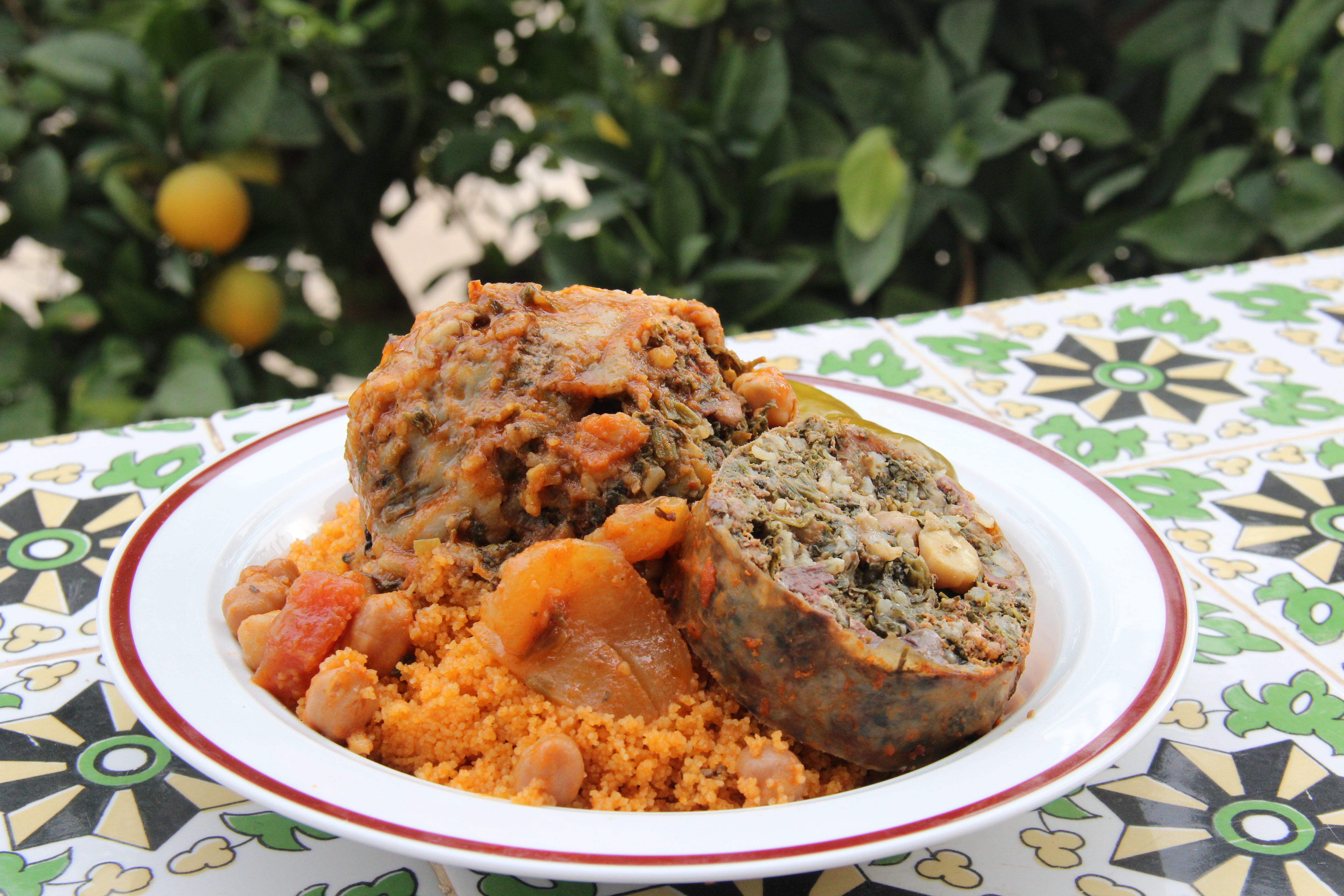 Tunisian Osban couscous This is an image of food from Tunisia